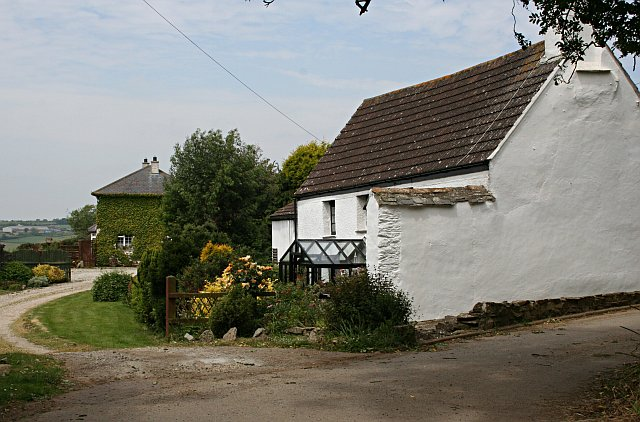 Houses at Trevilson. Trevilson is a typical 'Farm Hamlet' with a farmhouse, the farm buildings and yards and a few other houses, two of which are shown here.